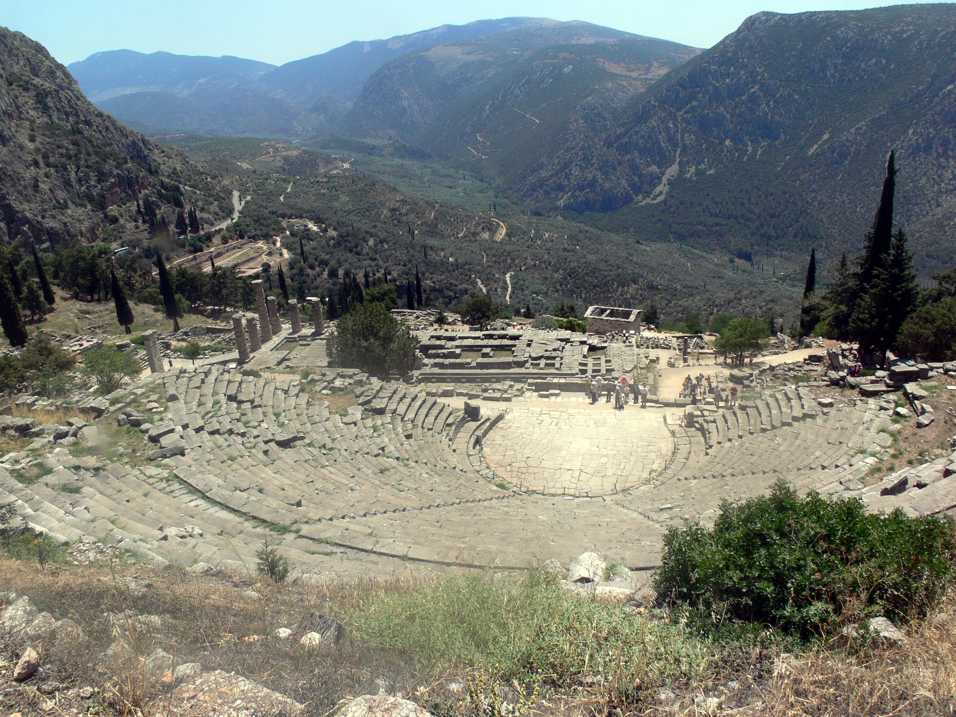 Ancient Greek theater in Delphi